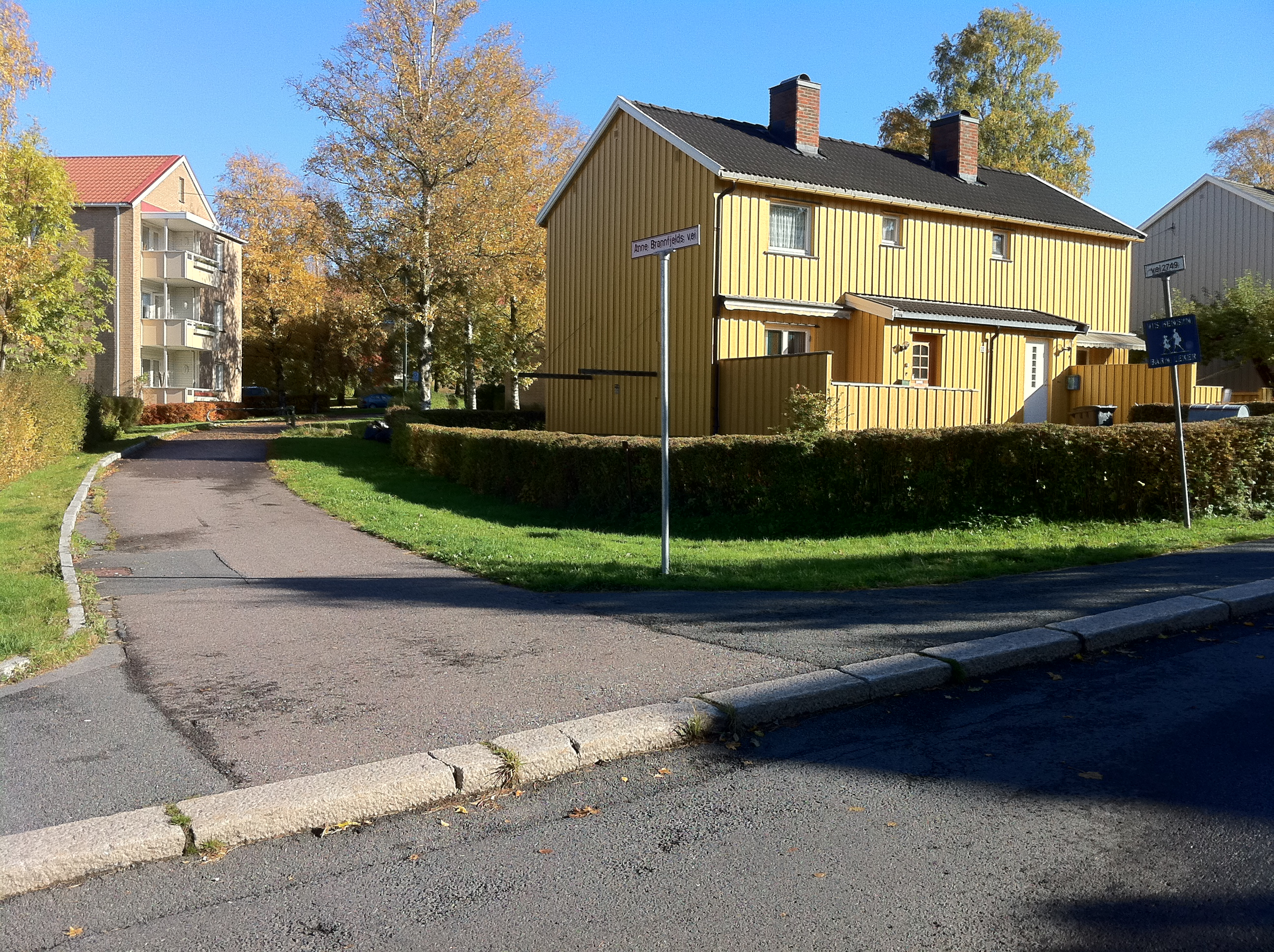 Anne Brannfjelds vei in Oslo.